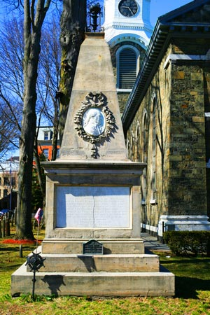 grave of george clinton first gov of ny in kingston ny